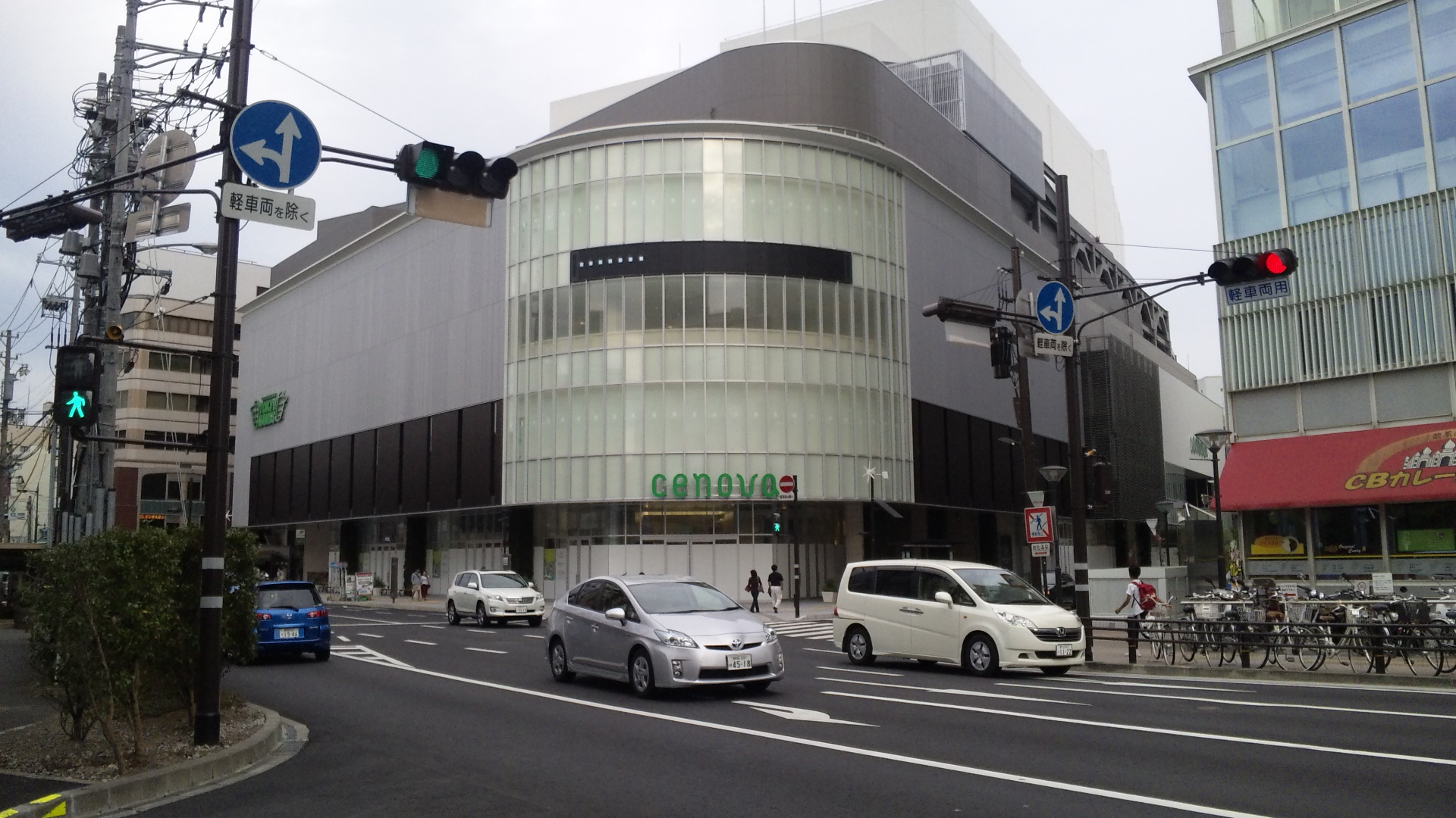 SHINSHIZUOKA CENOVA